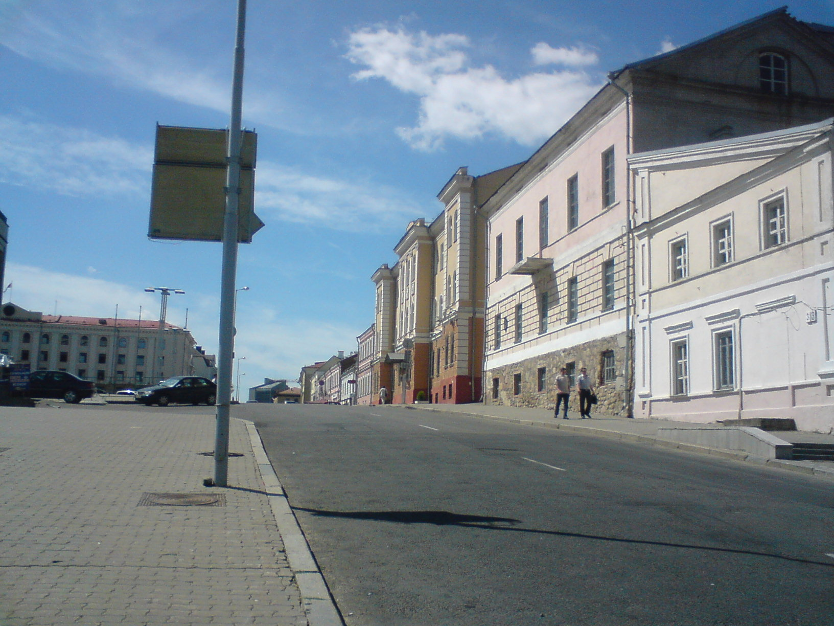 International street, Minsk